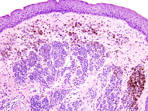 Histopathology representing an intradermal nevocellular nevus. Higher maginfication of a file "Nevocellular_nevus_histopathology_(1).jpg".